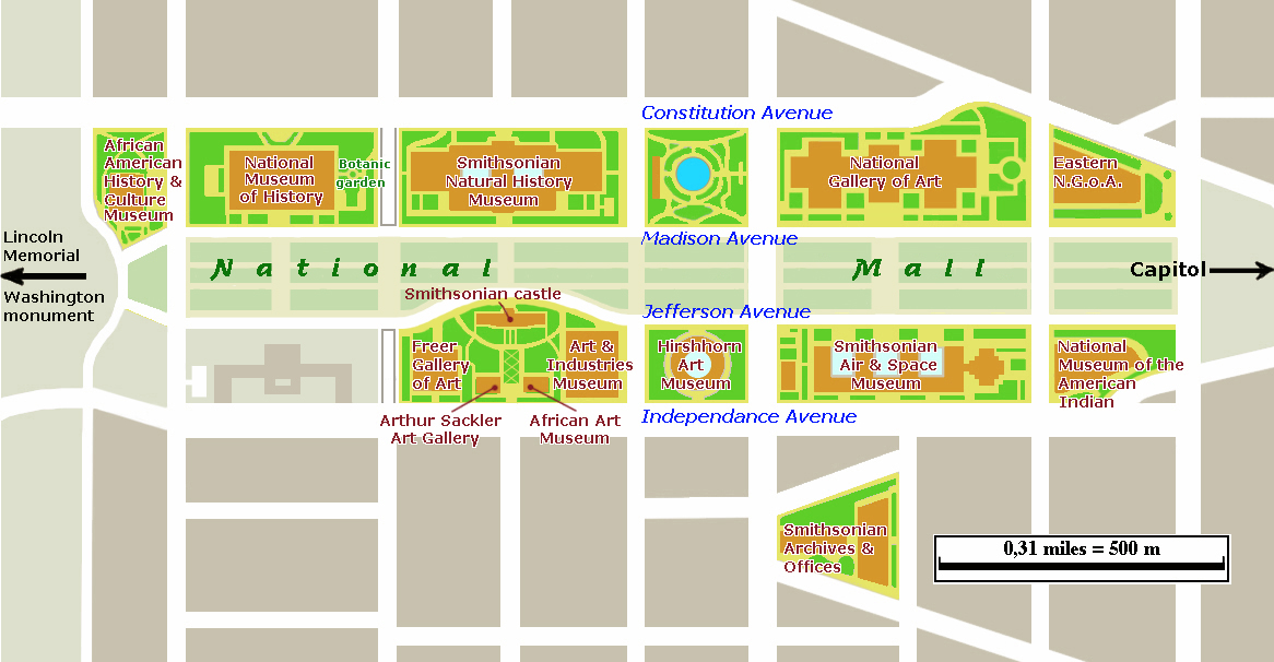 Map of the Smithsonian mall, Washington DC, USA